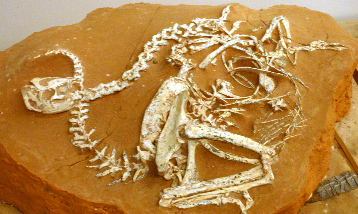 Khaan fossil holotype IGM 100/1127.